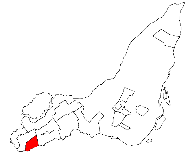 Map of Baie-d'Urfé on the Isle of Montreal